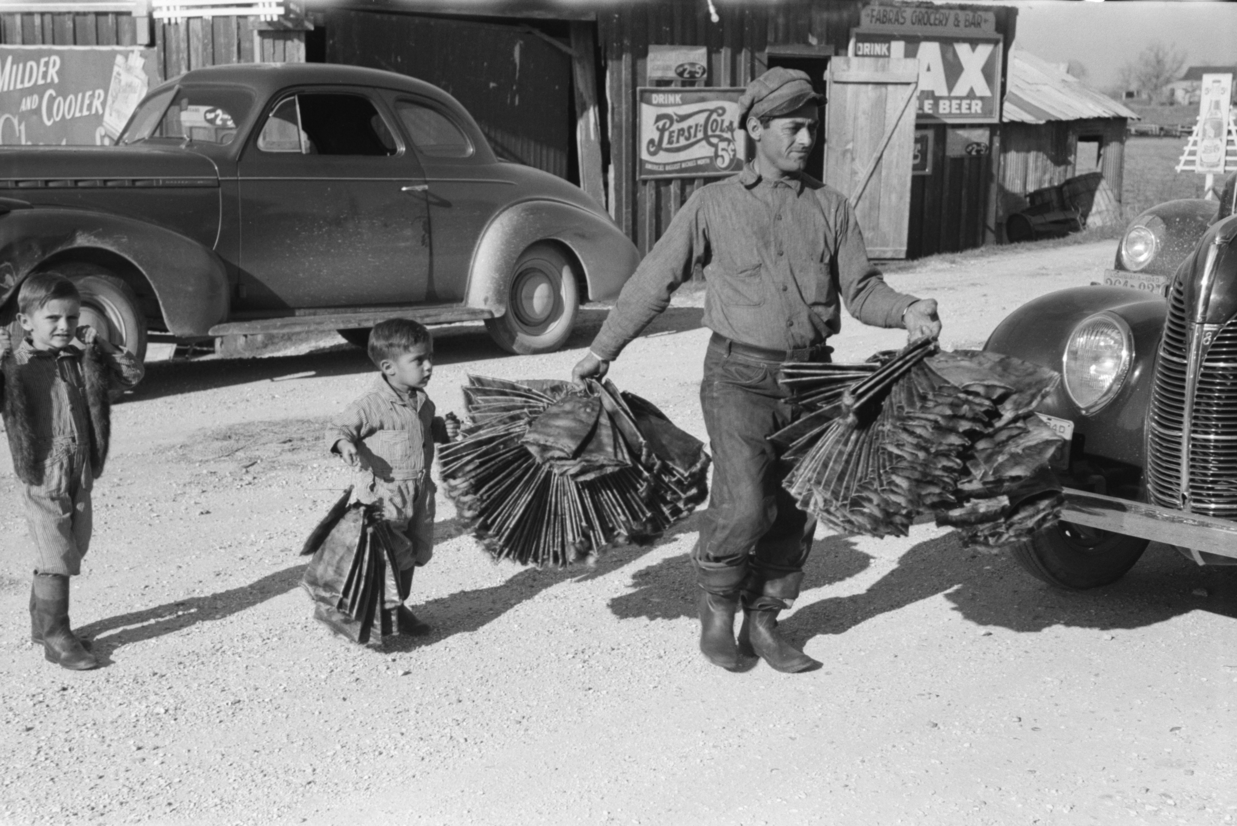 "Spanish trapper and his children taking muskrat pelts into the FSA (Farm Security Administration) auction sale which is held in a dancehall on Delacroix Island, Louisiana. The fur buyers come from New Orleans." Note: "Spanish" in this context probably means the trapper is a Louisiana Isleño